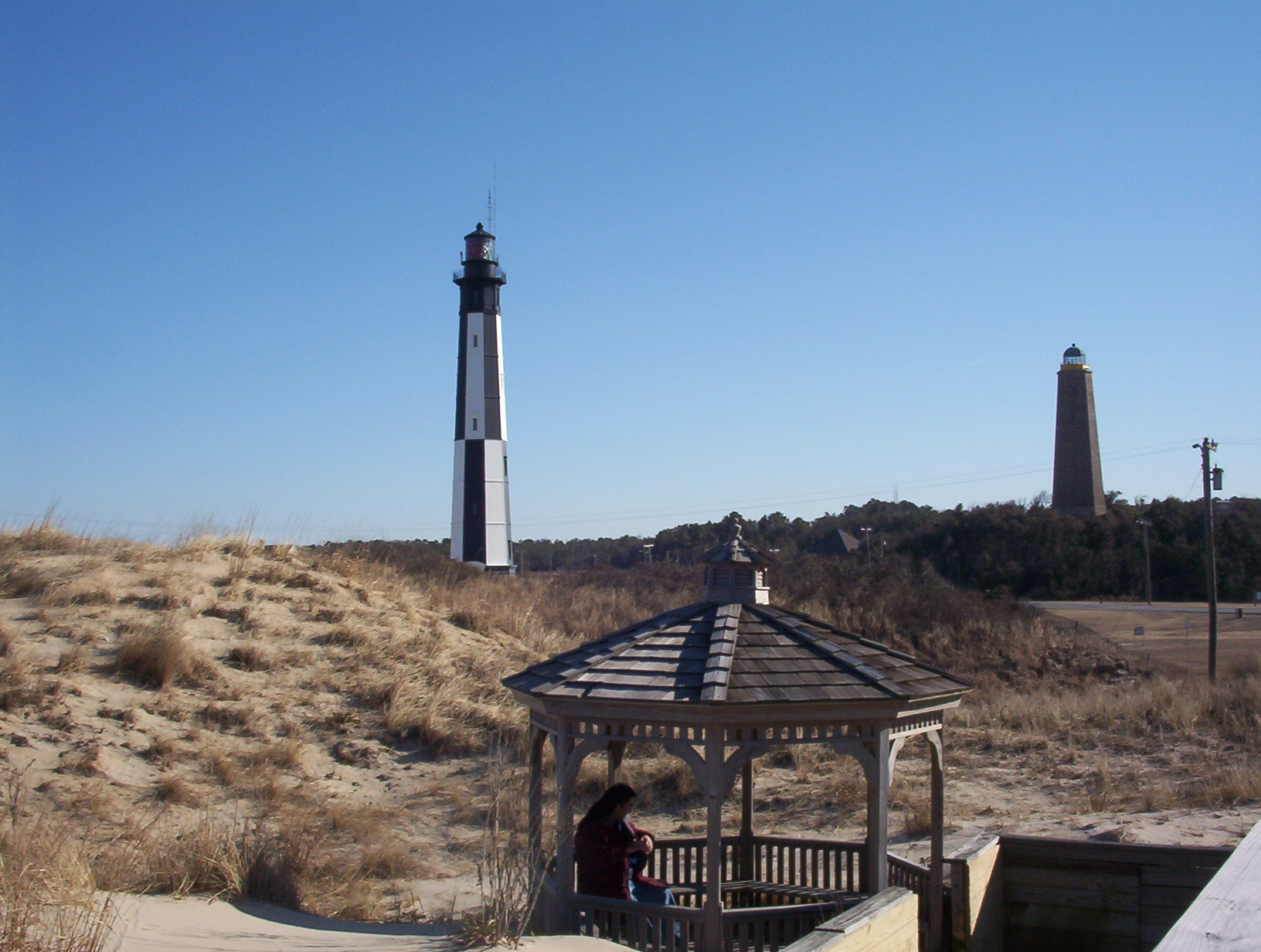 The two lighthouses of Cape Henry in Virginia Beach, USA. The left one is the still-active Cape Henry Light Station, the right one is the Old Cape Henry Lighthouse, now a museum. Approximate elevation: 4 m.